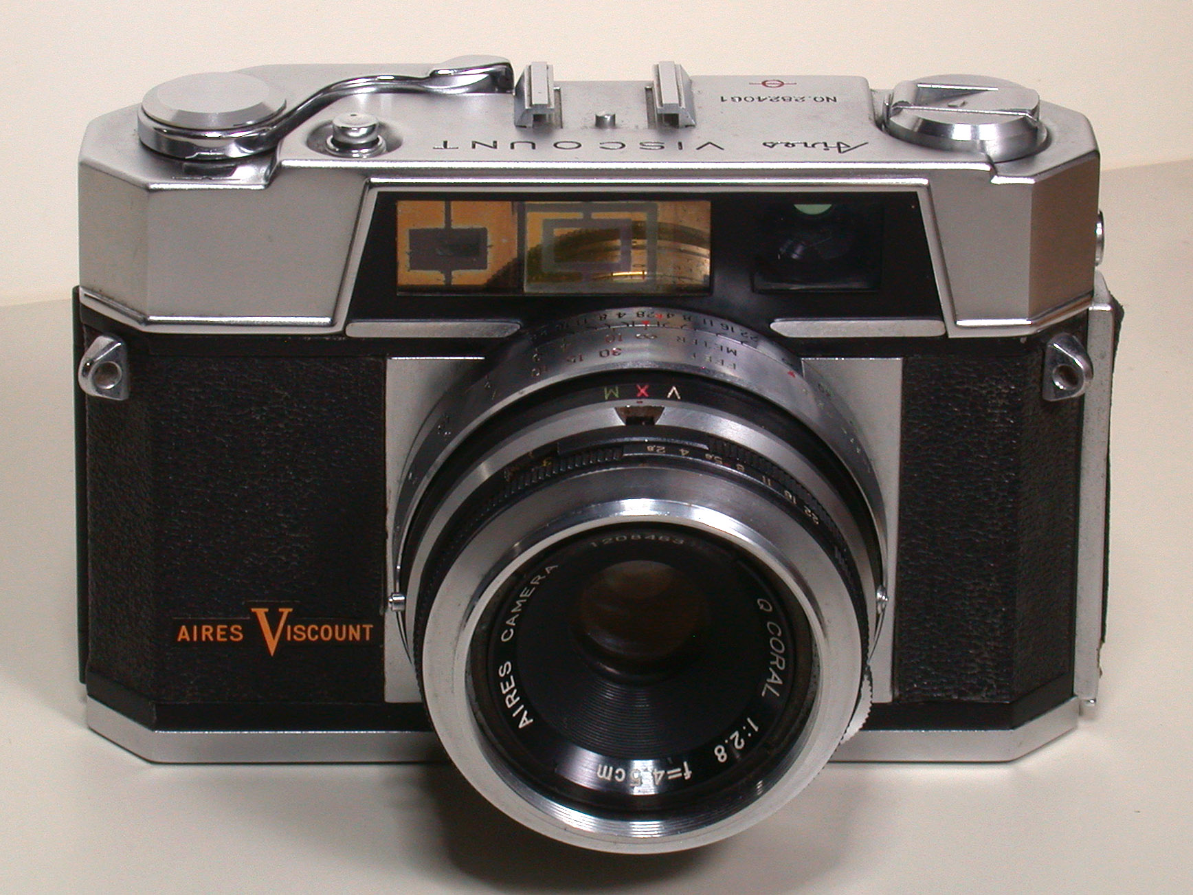 Aires Viscount (F2.8 lens model)